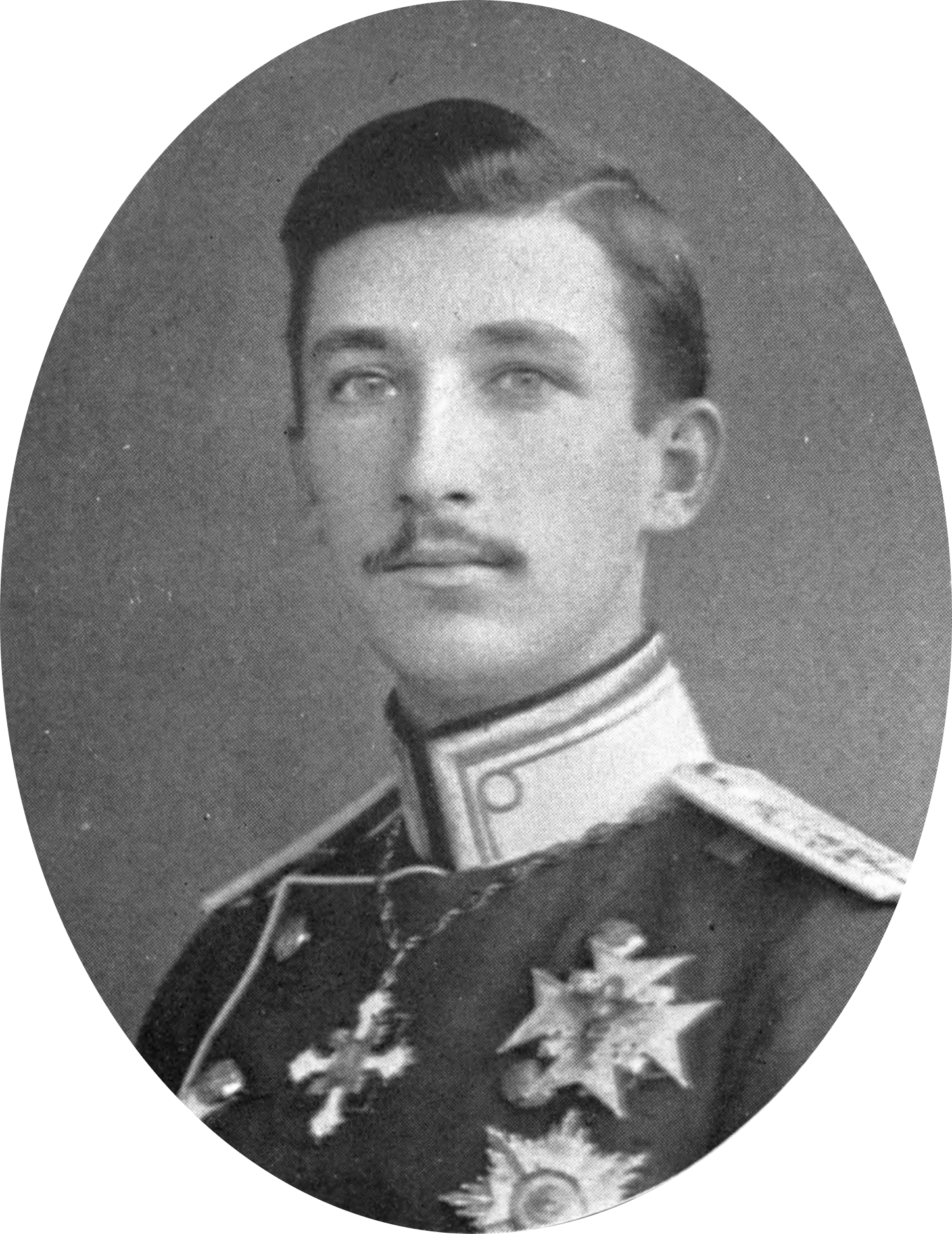 Bulgarian King Boris III